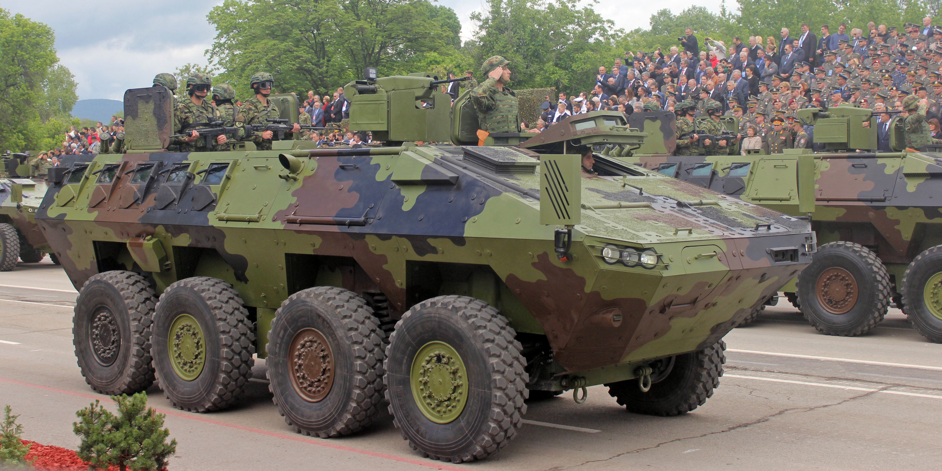 New Lazar-3 combat vehicles of Serbian Army at military parade in Niš.